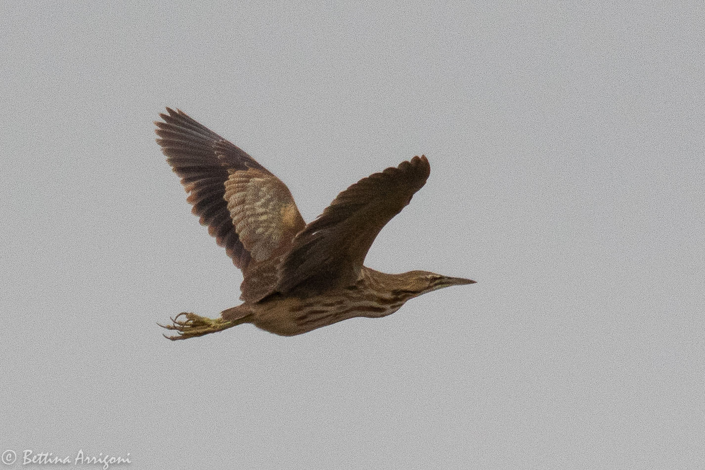 American Bittern | Anahuac NWR | High Island | TX|2018-04-06|10-51-13.jpg